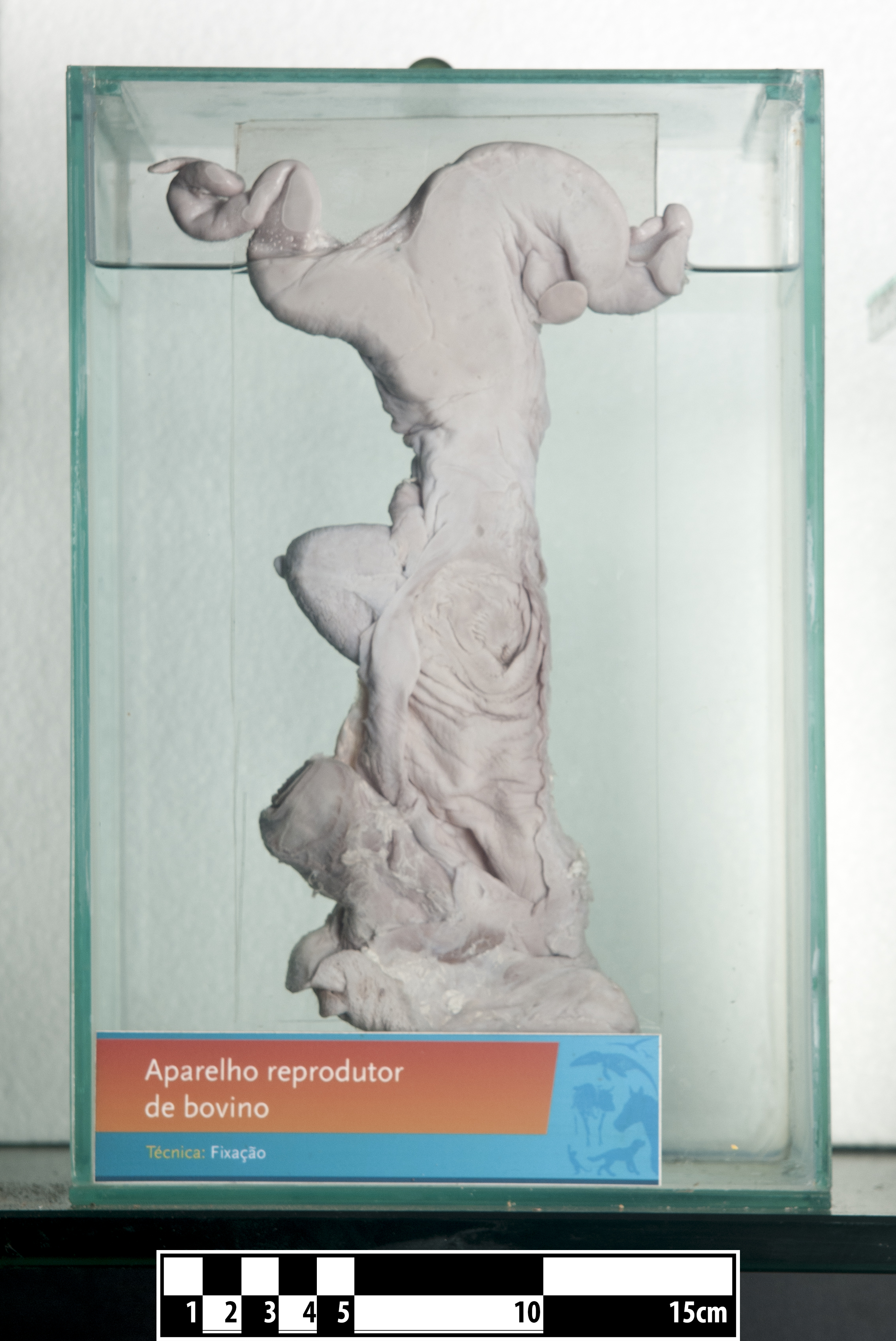 Bovine reproductive system. Bos taurus Technique of formalin fixation on display at the Museum of Veterinary Anatomy, FMVZ USP. This file was published as the result of a partnership between the Museum of Veterinary Anatomy FMVZ USP, the RIDC NeuroMat and the Wikimedia Community User Group Brasil. This GLAM project is reported. Photography: Museum of Veterinary Anatomy FMVZ USP. Author: Wagner Souza e Silva.